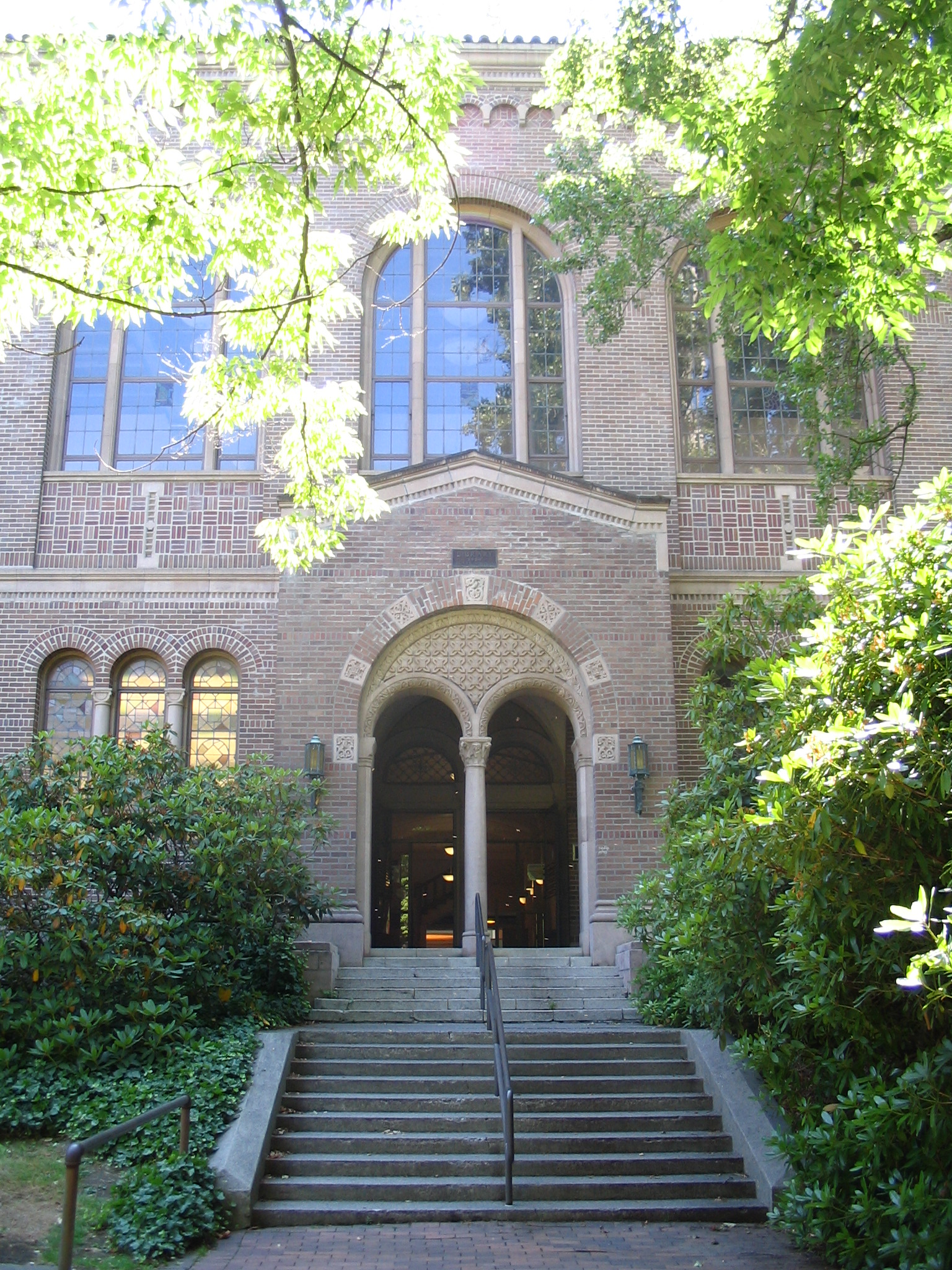 Original Entrance to Wilson Library, 1929.